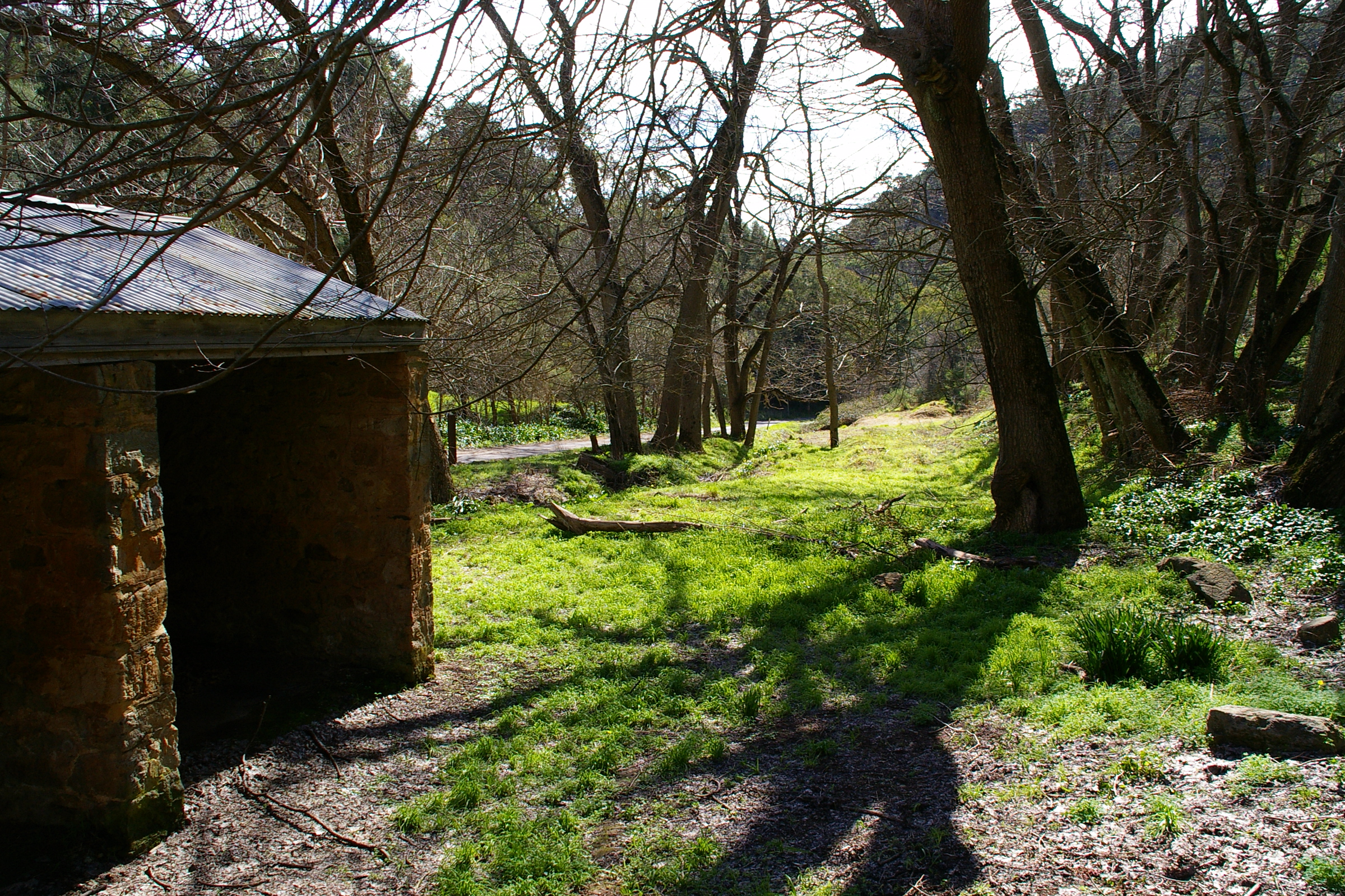 Buildings at the entrance to Horsnell Gully Conservation Park